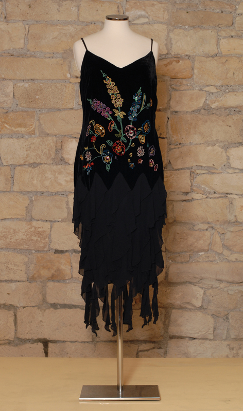 Φόρεμα από βελούδο και σιφόν της Sue Wong, ΗΠΑ 2007.6.285 / Συλλογή Πελοποννησιακού Λαογραφικού Ιδρύματος